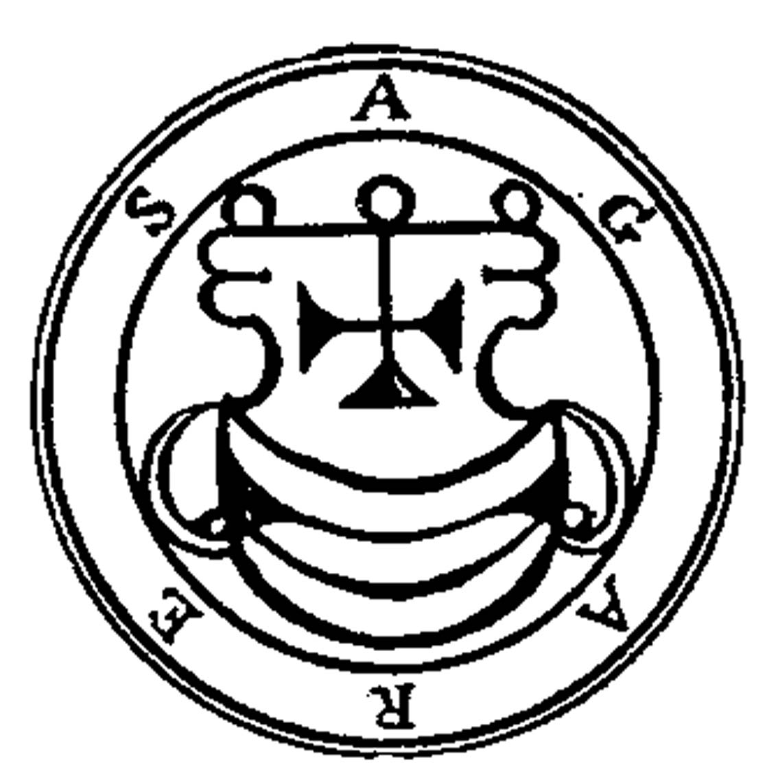 The seal of the demon Ageres, see List of demons in the Ars Goetia